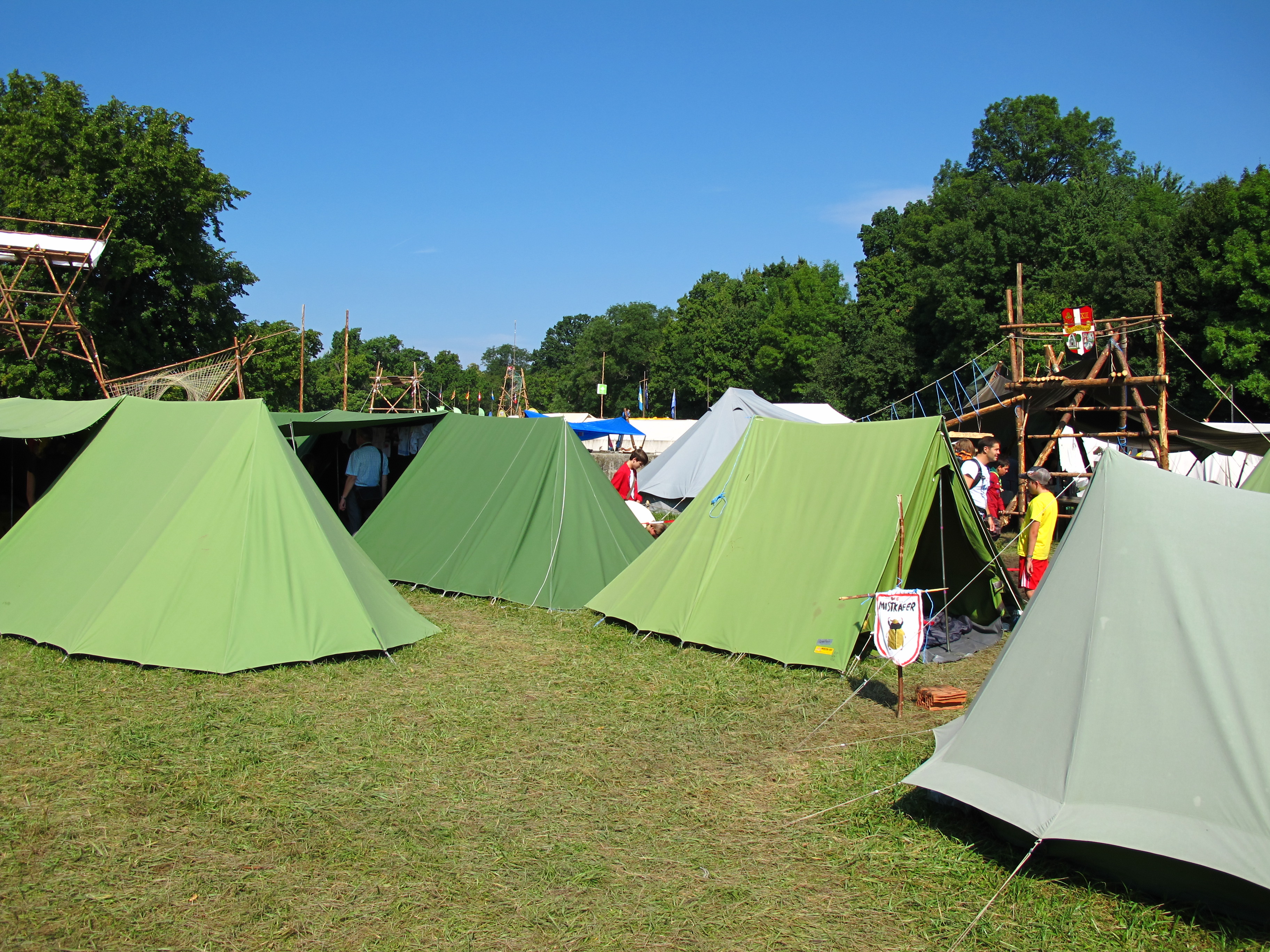 Green and gray tents at the scout meeting Austrian Jubilee Jamboree urSPRUNG 2010 in the park of the Castle of Laxenburg / near Vienna / Austria / EU.